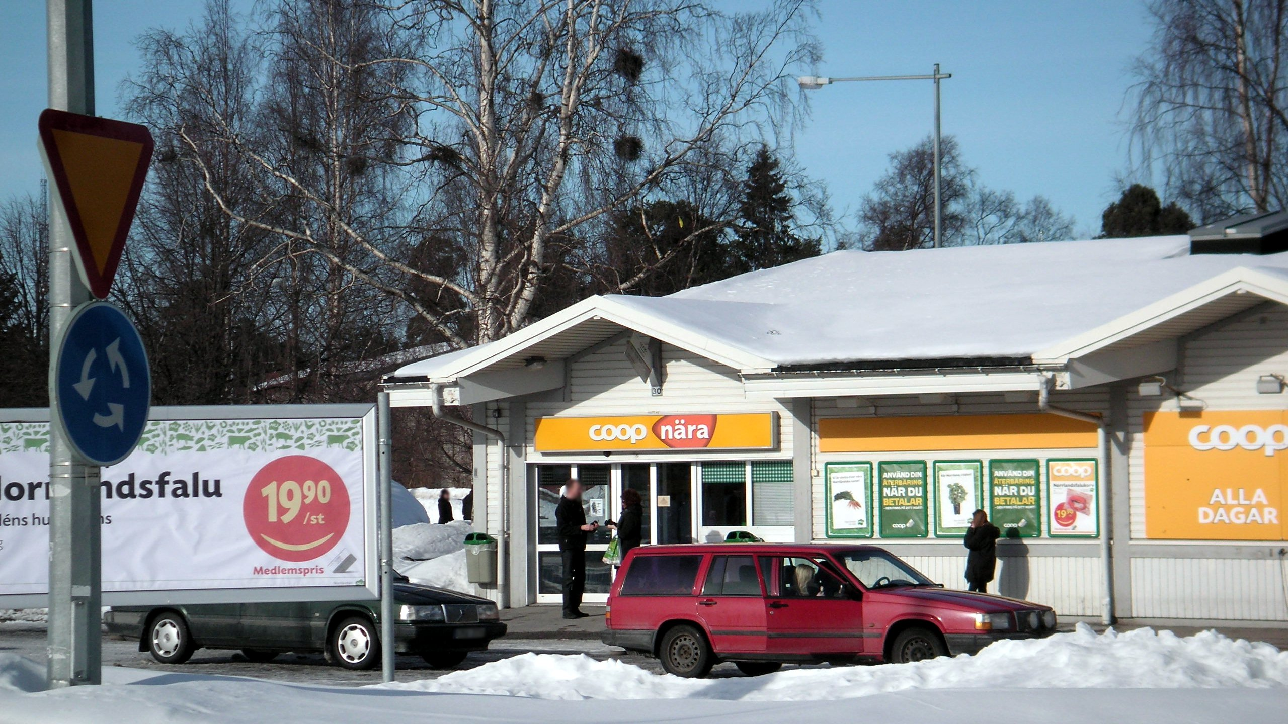 Convenience store "Coop Nära" on neighborhood "Grisbacka" in Umeå, Sweden.